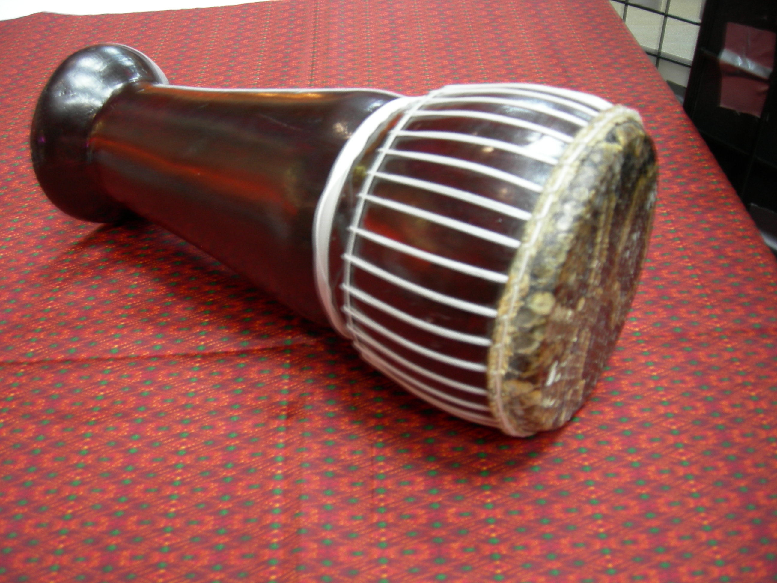 Khmer drum called Skor, photographed at API (Asian Pacific Islander) Heritage Month Festival, part of Festál at Seattle Center, Seattle, Washington.